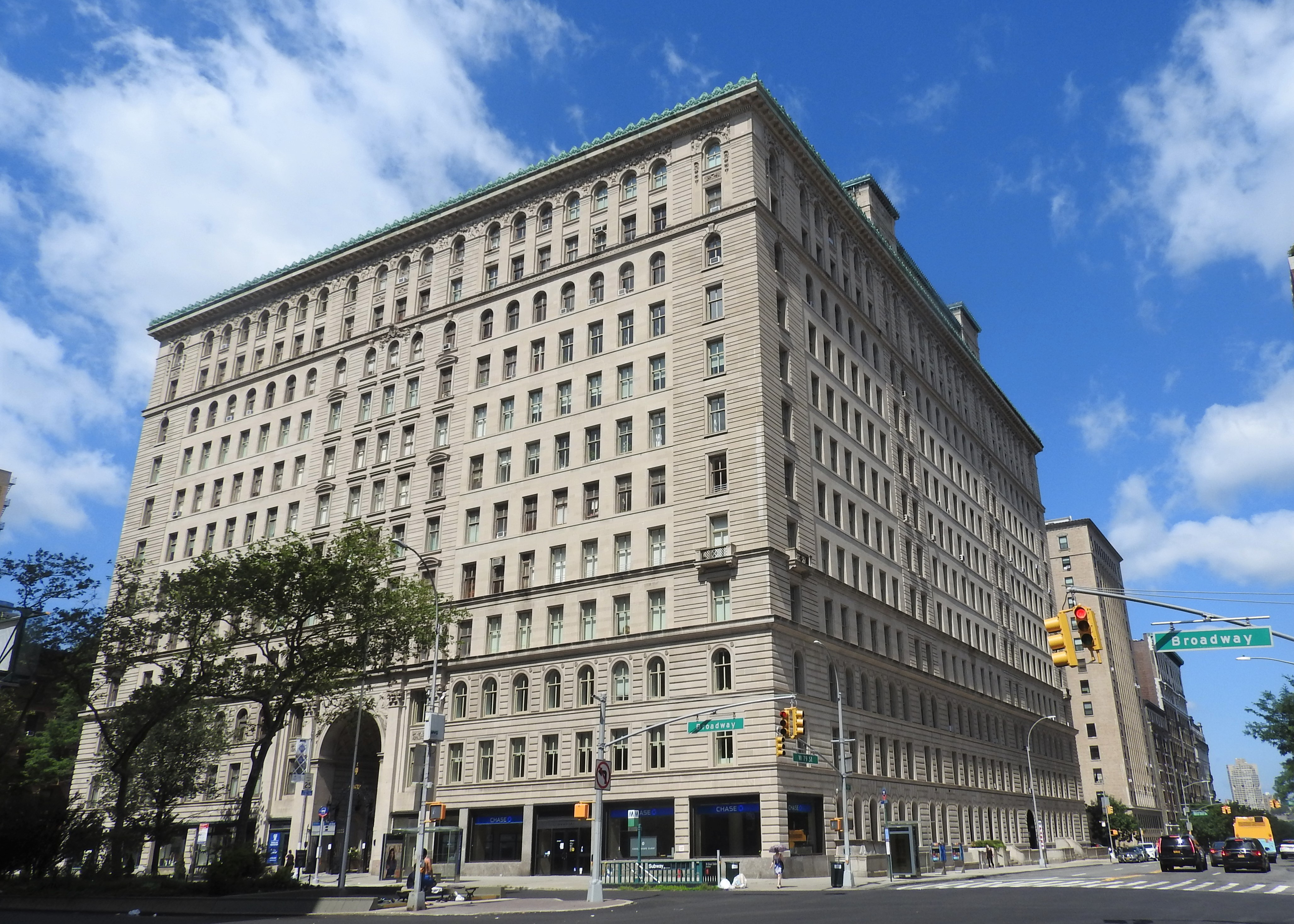 Looking west across Broadway and 79 on a sunny summer morning